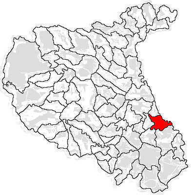 Limits of commune within Vrancea County